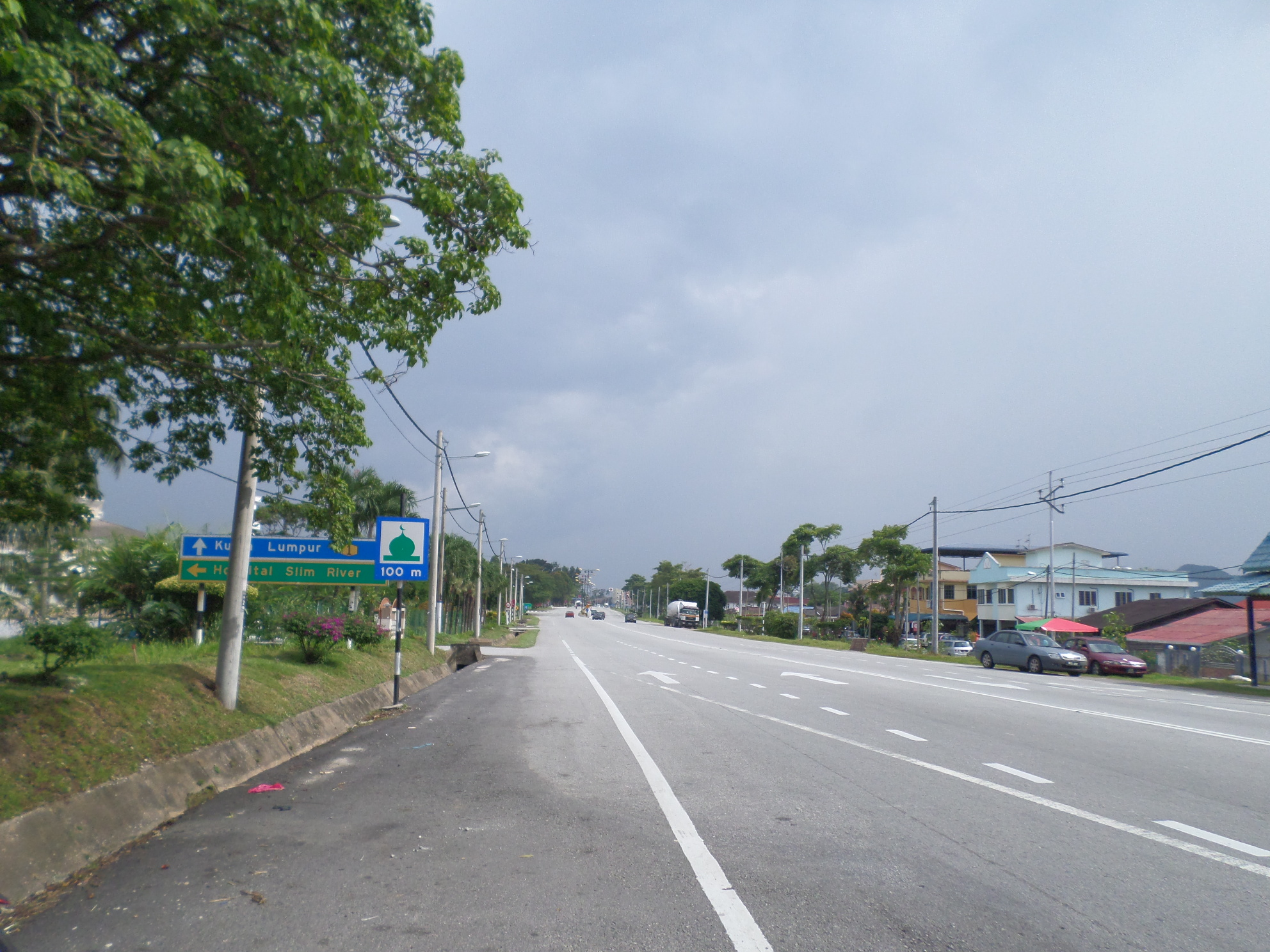 Slim River, Batang Padang, Perak, MalaysiaBahasa Melayu: Slim River, Batang Padang, Perak, Malaysia